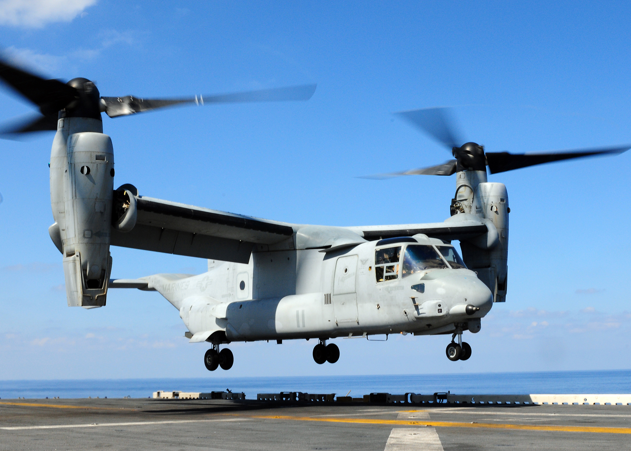 MEDITERRANEAN SEA (Oct. 11, 2009) An MV-22B Osprey assigned to Marine Medium Tiltrotor Squadron (VMM) 263 (Reinforced) from the 22nd Marine Expeditionary Unit (MEU), takes off from the amphibious assault ship USS Bataan (LHD 5) during Exercise Bright Star 2009. The multinational exercise is designed to improve readiness and interoperability among U.S., Egyptian and participating forces. The biennial exercise is conducted by U.S. Central Command. (U.S. Navy photo by Mass Communication Specialist 2nd Class Julio Rivera/Released)